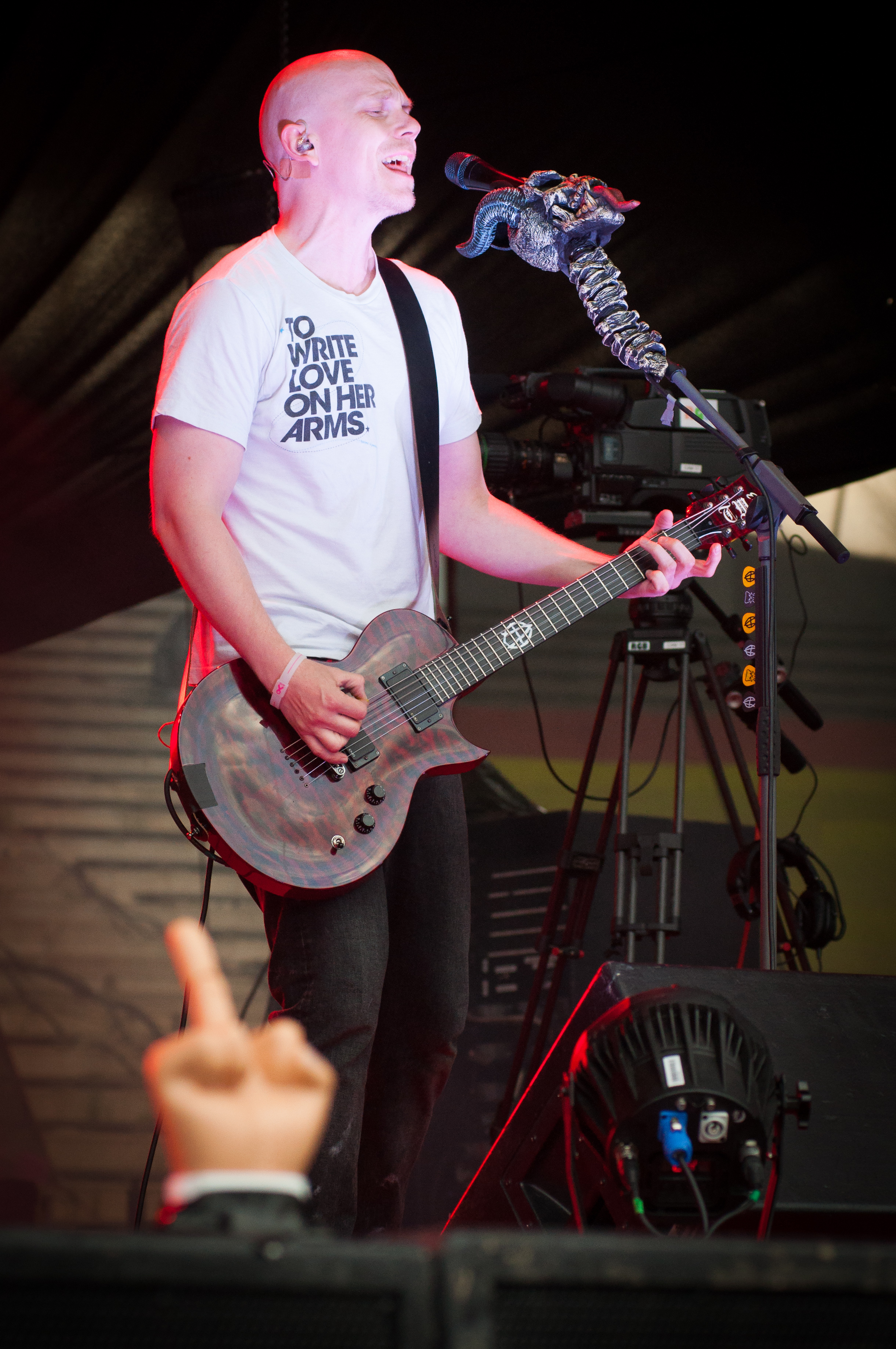 Finnish vocalist and guitarist Toni Wirtanen of Apulanta performing at the 2011 Ilosaarirock festival in Joensuu, Finland.